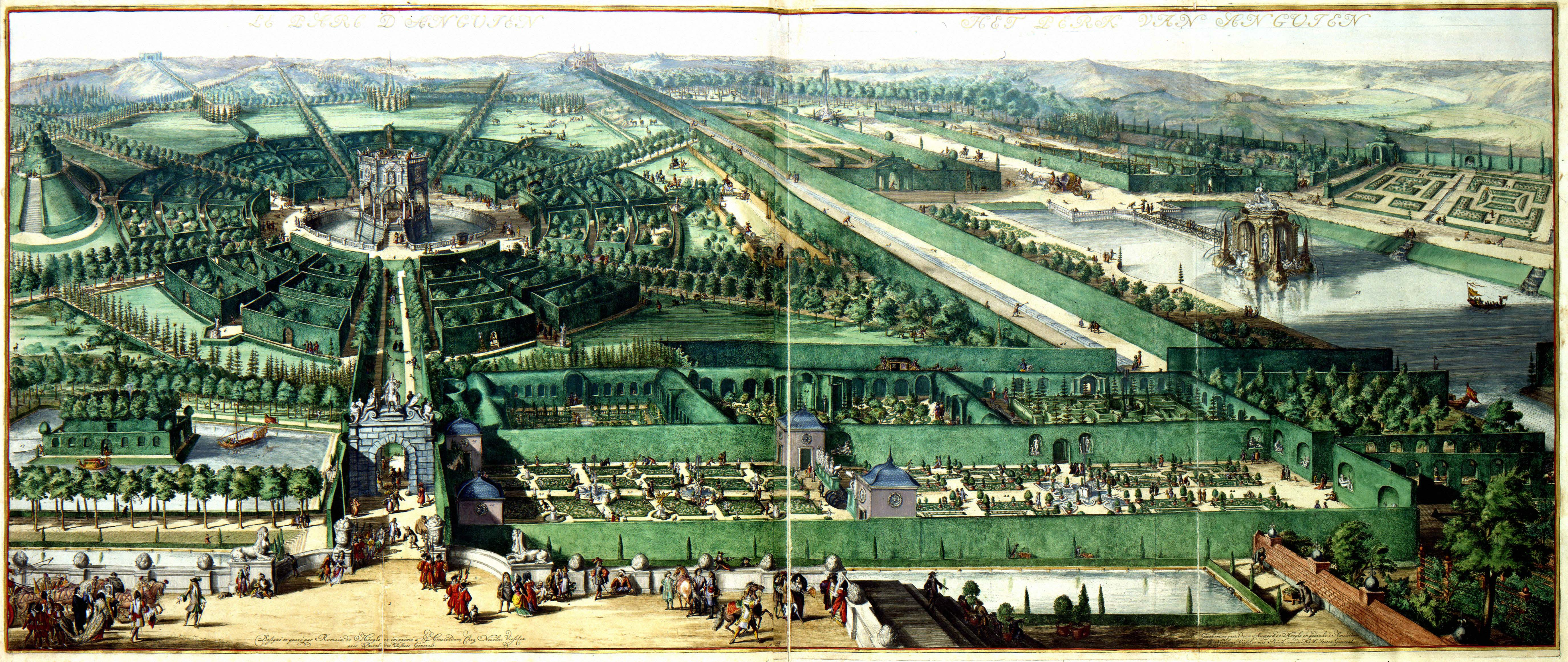 Map publisher Nicolaes Visscher II (1649-1702), who also specialised in the publication of prints about gardens. He commissioned Romeyn de Hooghe (1645-1708) in 1685 to engrave a series of prints of gardens of Enghien south of Brussels. This print provides a general view on the complex of gardens.